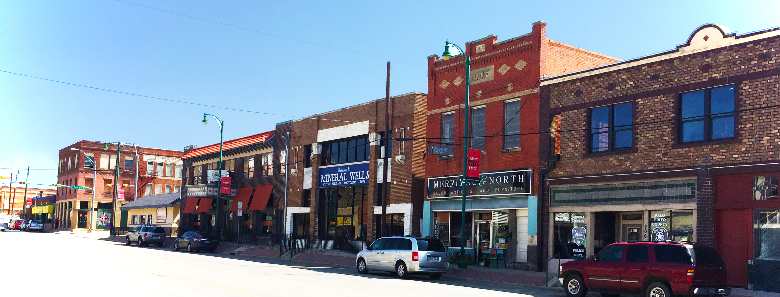 Downtown Mineral Wells, Texas City of Heritage, Hospitality, & Hope!